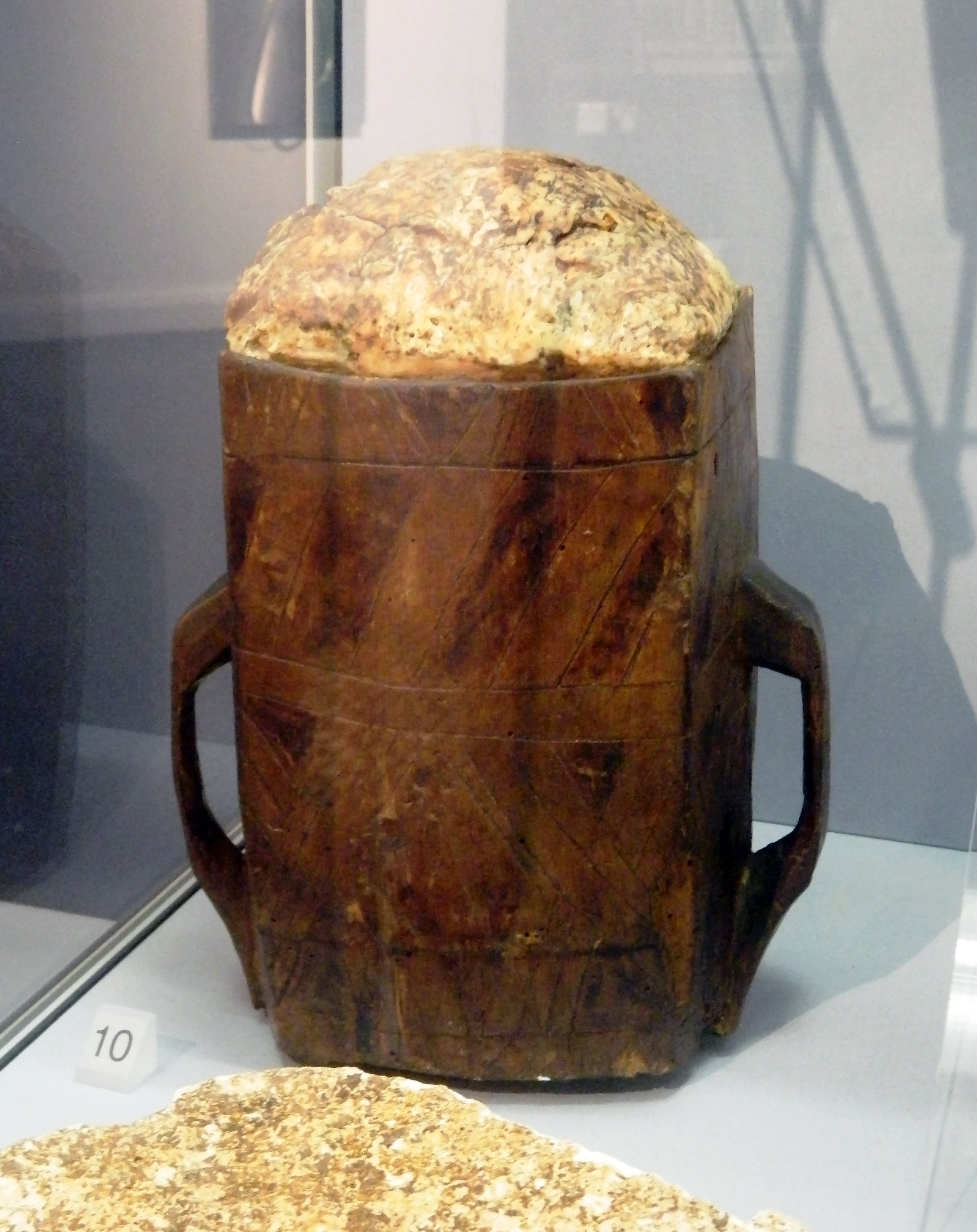 Bog butter in wooden vessel. 15th -16th century. Found near Portadown, County Fermanagh, Ireland. In the Ulster Museum